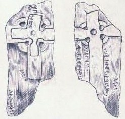 image